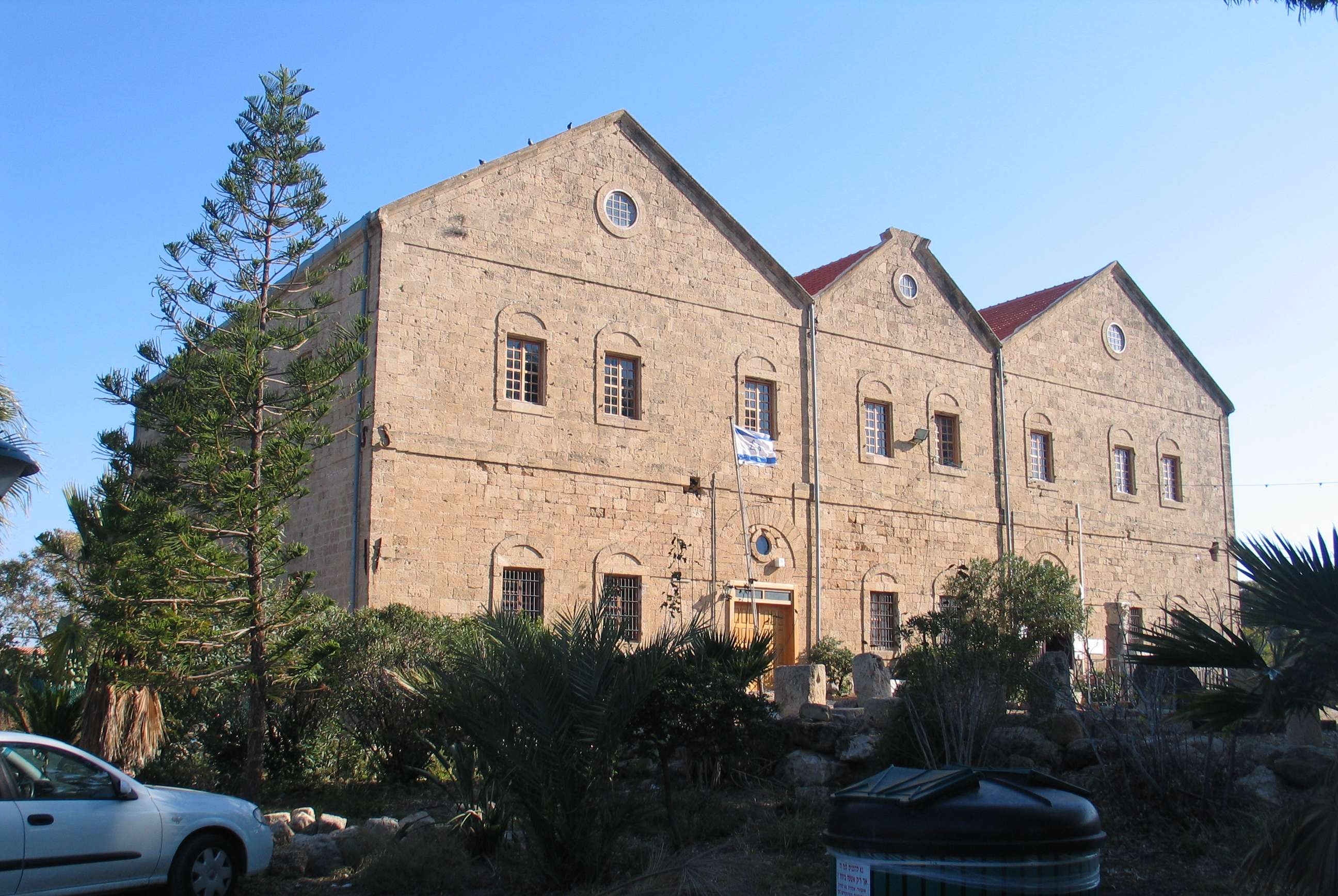 Ha-Mizgaga Museum, kibutz Nahsholim, Israel.